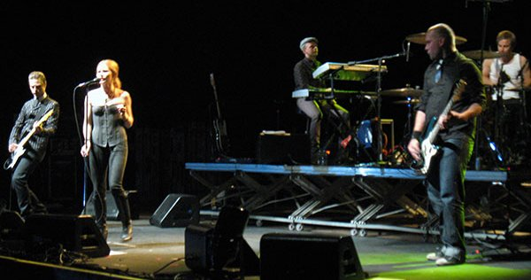 The Cardigans performing in Belo Horizonte, Minas Gerais, Brazil